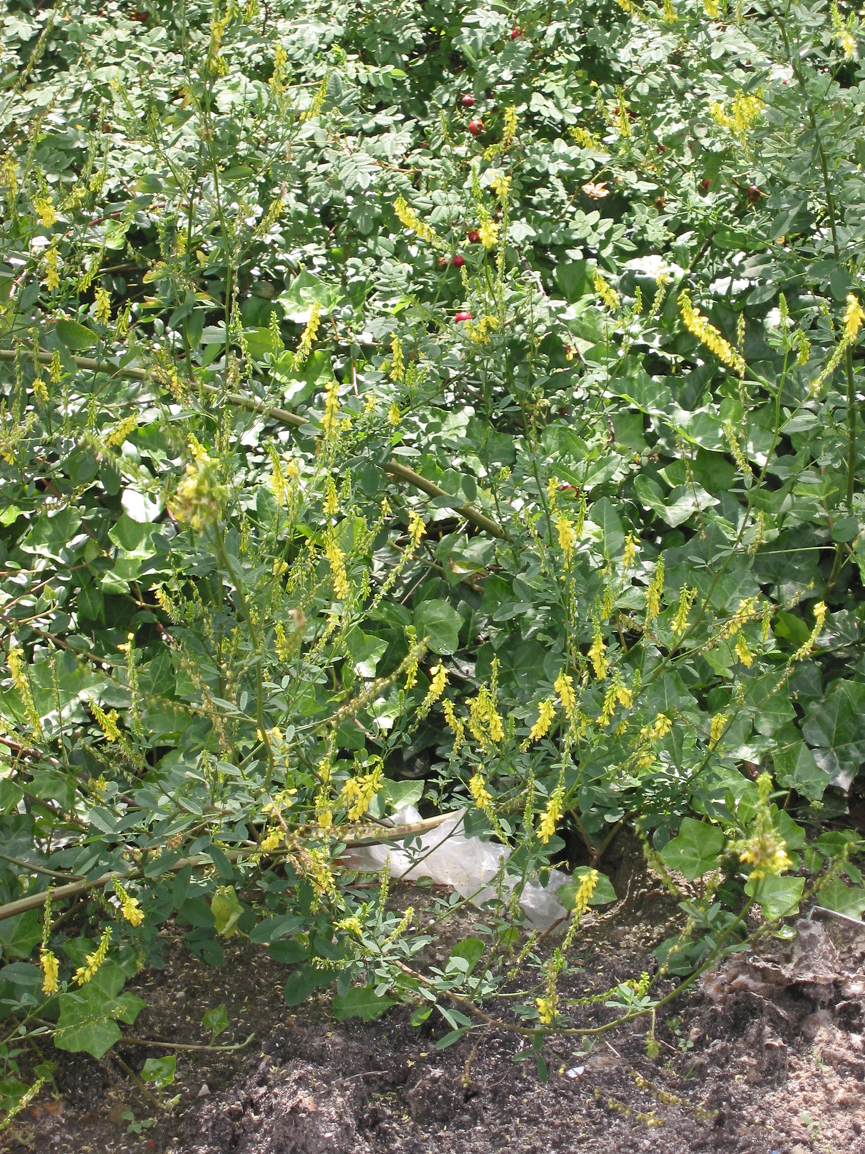 Melilotus officinalis (Citroengele honingklaver plant